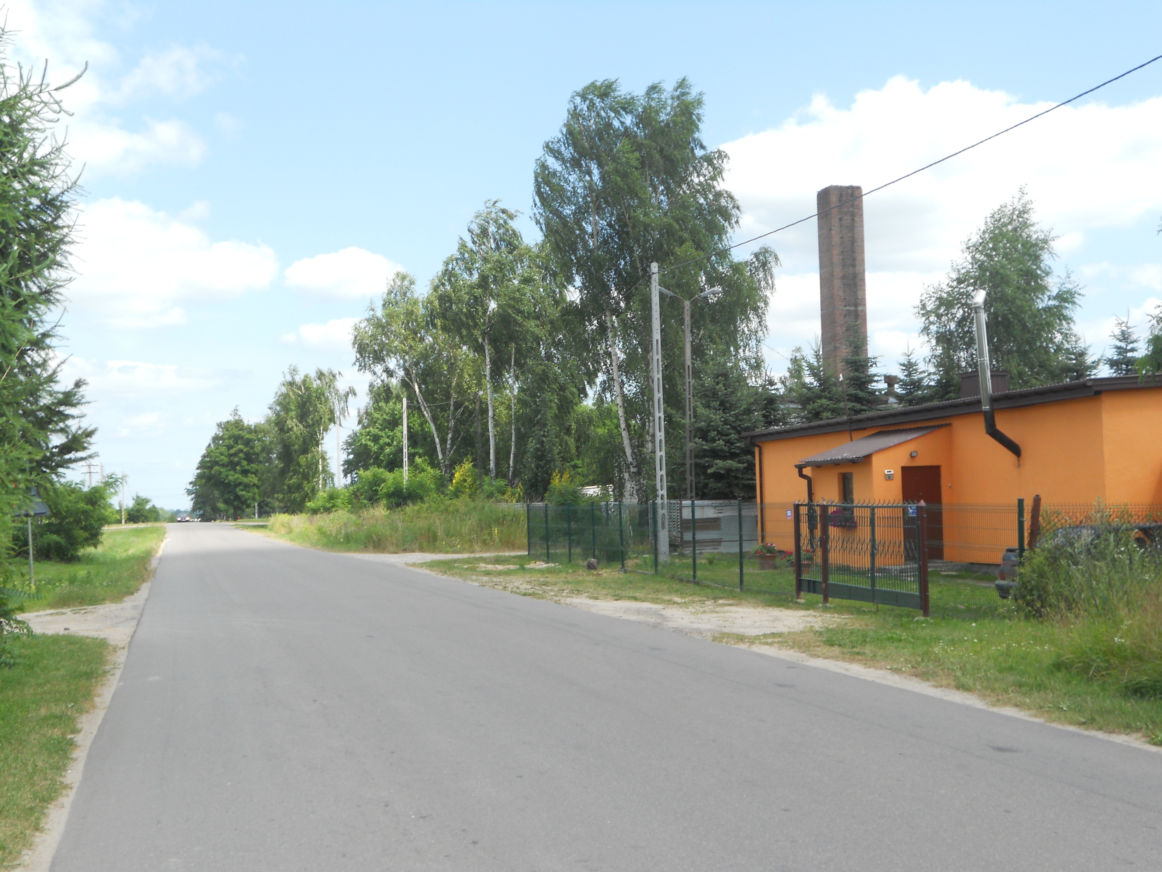 Olszany powiat Grojec